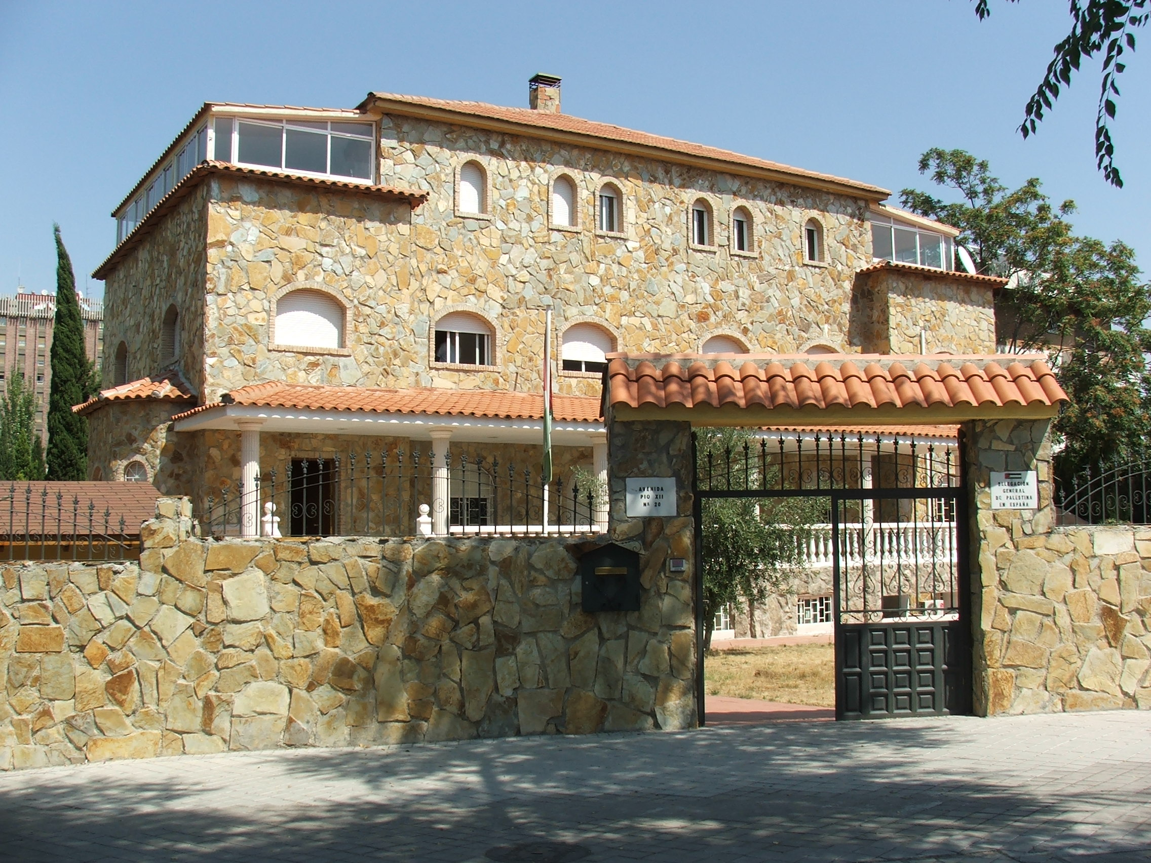 General delegation of Palestine in Madrid - Spain, Avenida Pio XII.